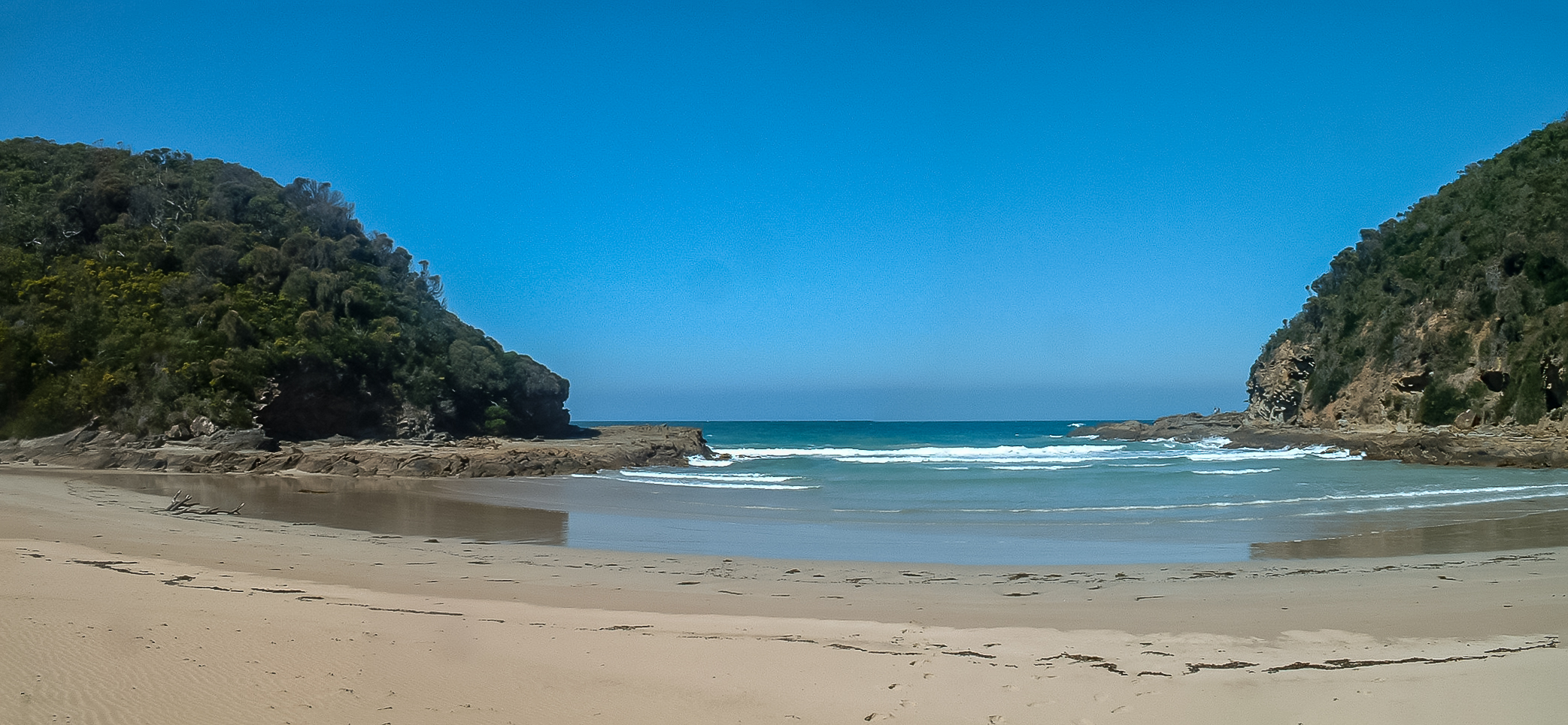 The Parker River enters the sea at the left of this photograph. The river mouth is a small inlet with steep sides, and a wide sandy beach.